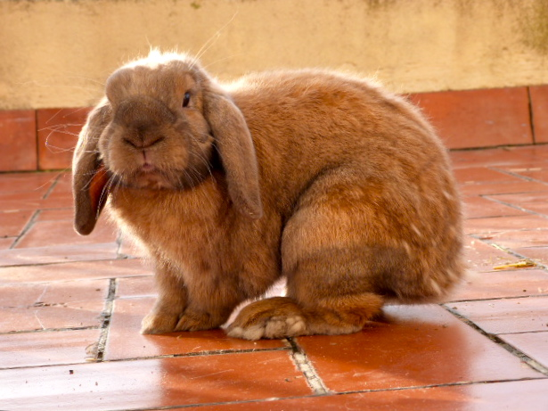 Rabbit - French Lop breed - Sooty fawn (sooty-fawn) color variety - adult male - lop ears